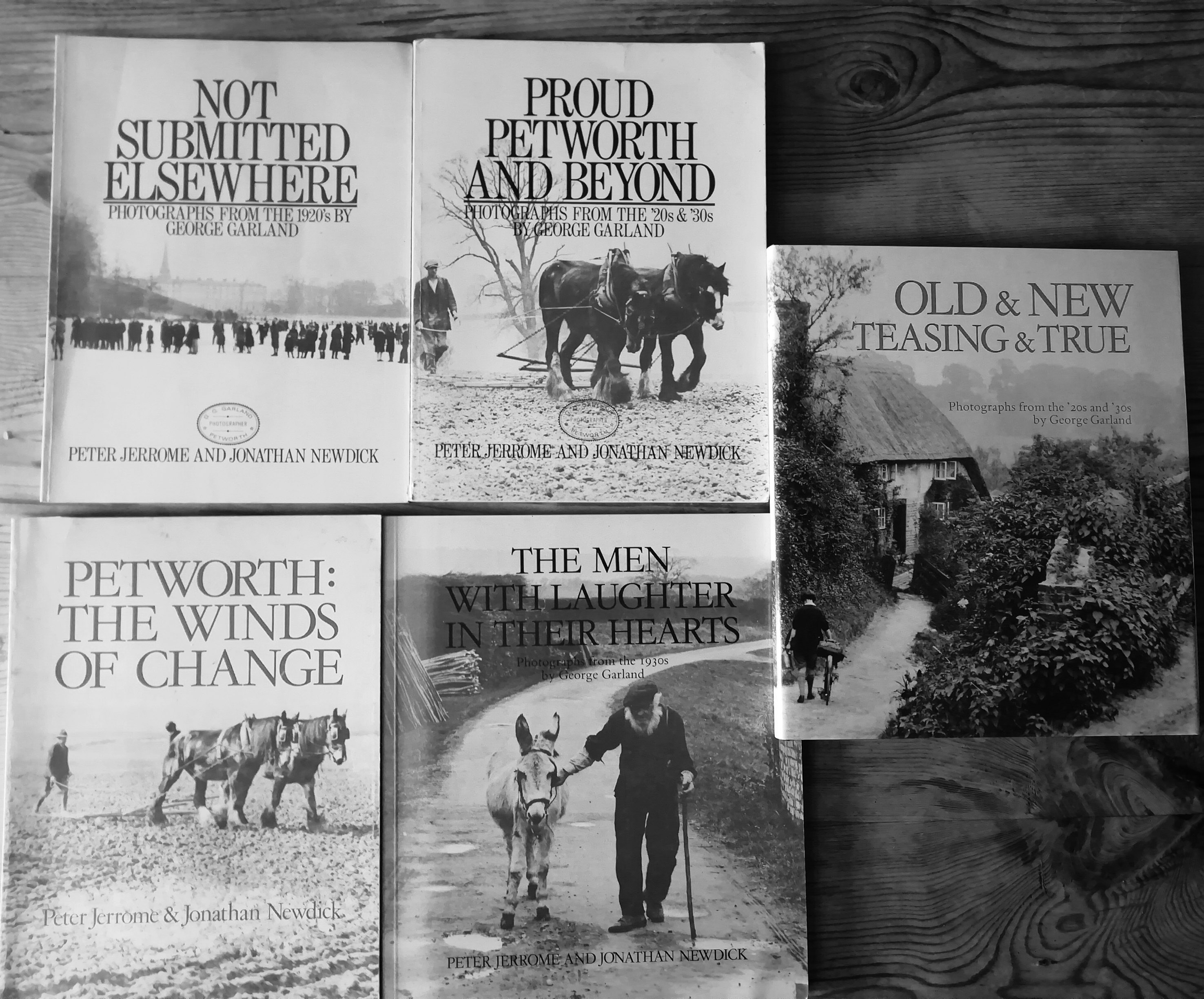 books featuring the archived photographs of historic Petworth and South Downs photographer George Garland